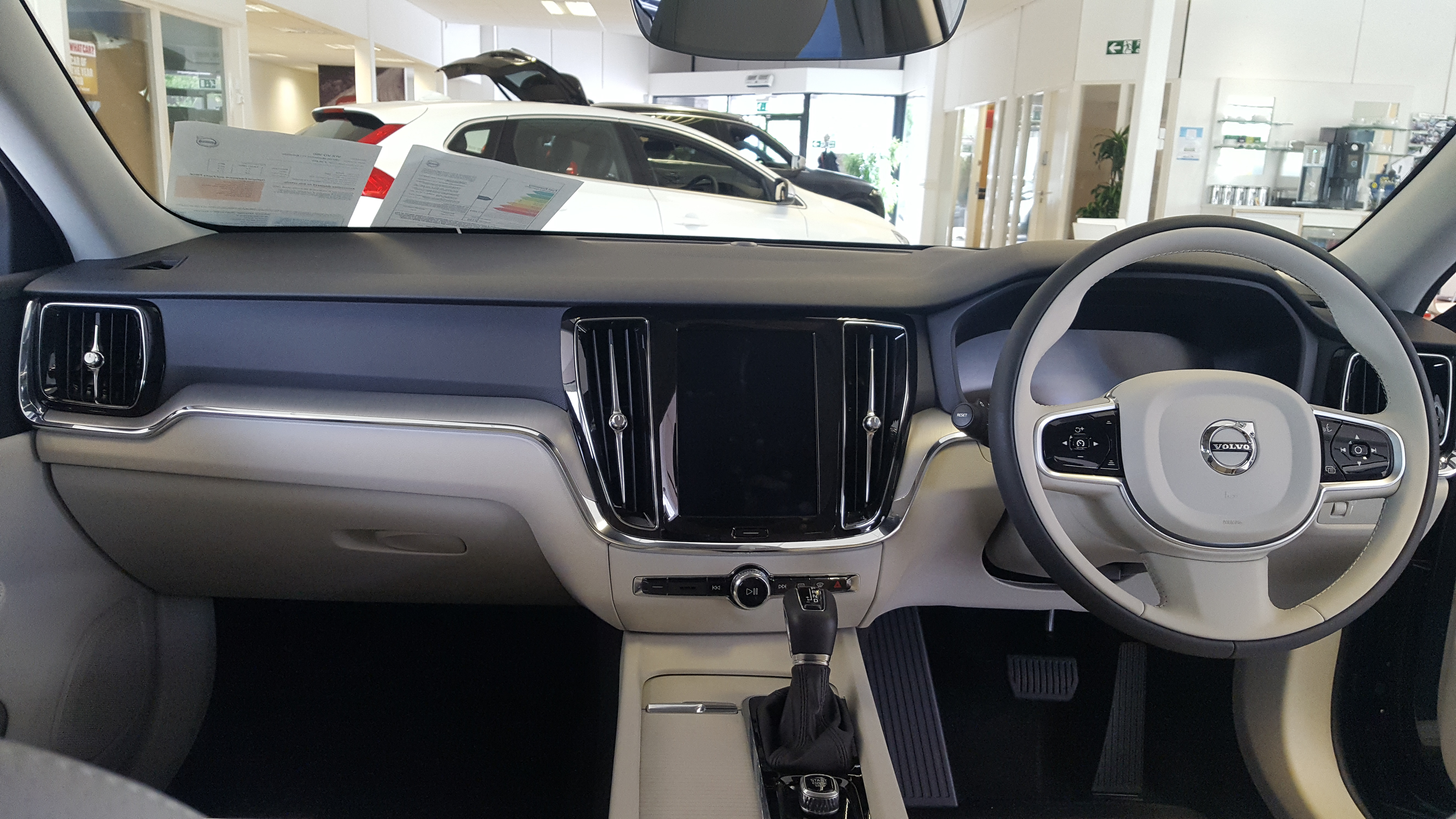 2018 Volvo V60 Interior Taken in Leamington Spa